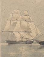 H.M. 50 gun frigate Phaeton constructed by Mr Joseph White Note: HMS Amphion shown as 36 guns, she was reduced to 30 in 1848, So image is 1848, though published 1850 Hand-coloured. H.M. 50 gun frigate Phaeton constructed by Mr Joseph White